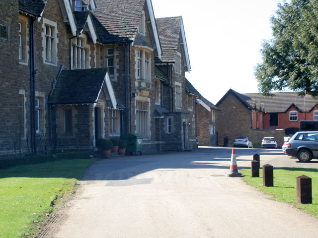 Ranksborough Hall. Right on the northern edge of this square. for more information about this holiday and mobile home park